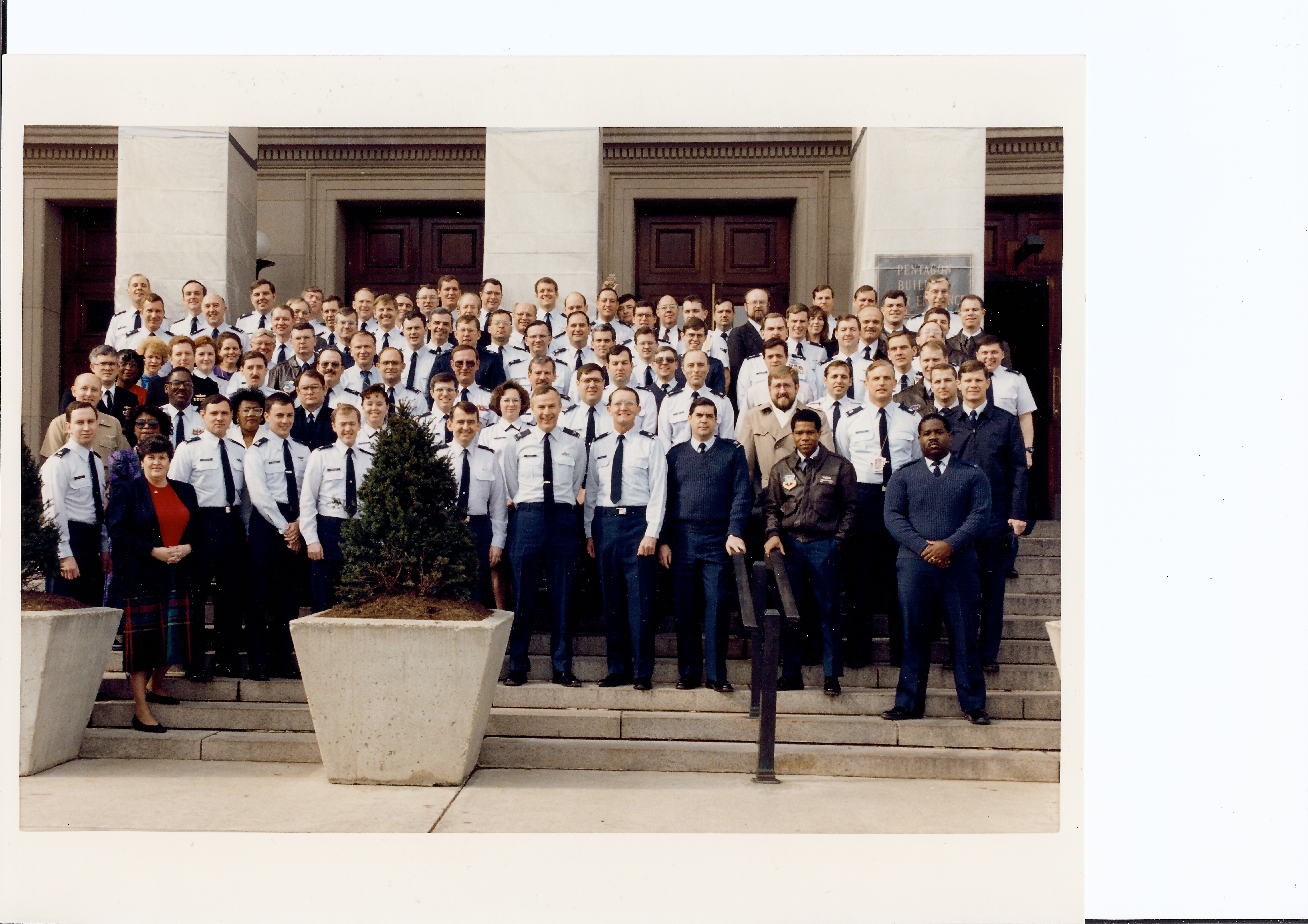 Photo of many of the people who participated in the Checkmate Gulf War I Air Campaign planning.